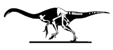 Skeletal reconstruction of Segnosaurus galbinensis.